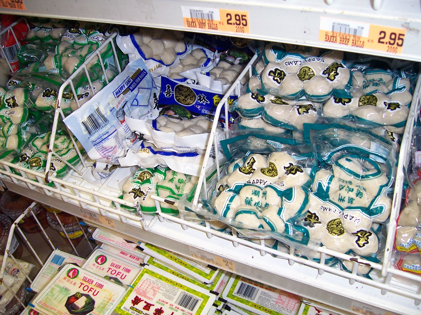 A variety of meatballs as sold by a Chinese supermarket in Sydney. Taken by Enoch Lau on 12 July 2006. As a courtesy, please let me know if you alter this image or this image description page. Original filename was 100_1608.JPG.